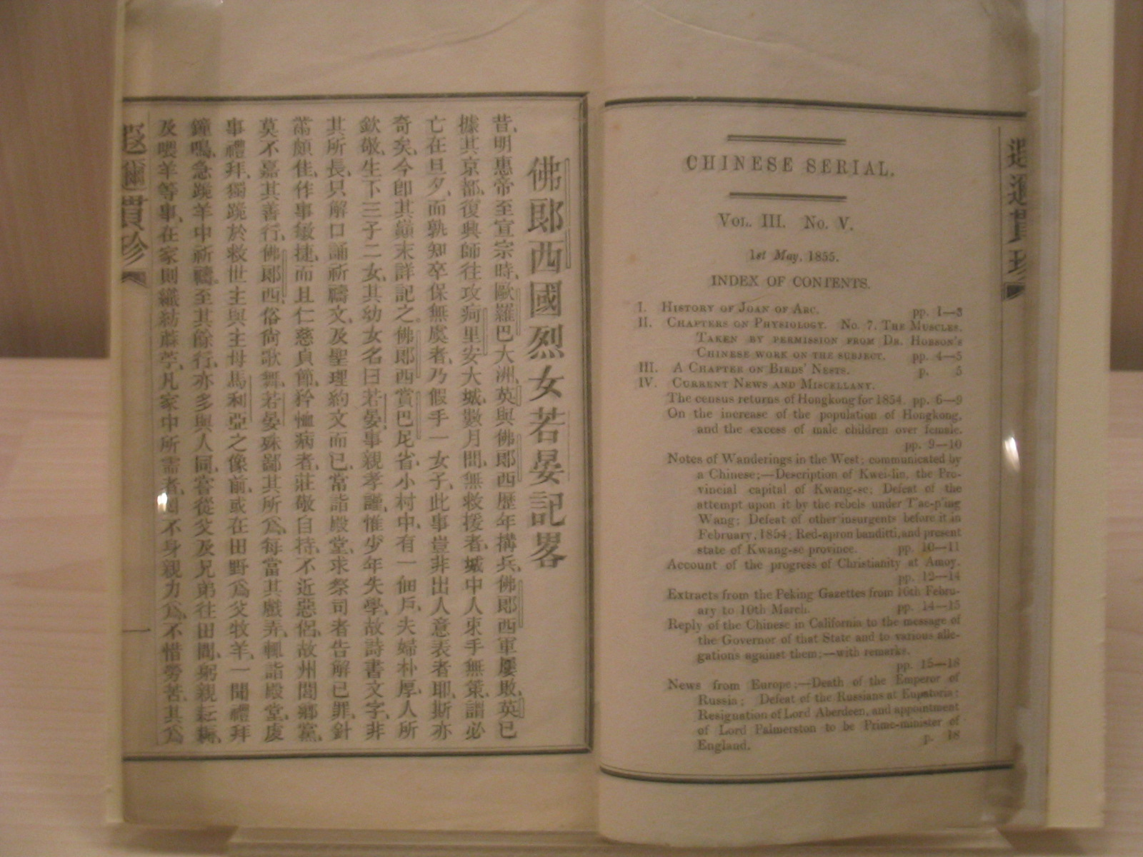 The Chinese Serial, the first Chinese newspaper in Hong Kong, exhibited in the Hong Kong Museum of History